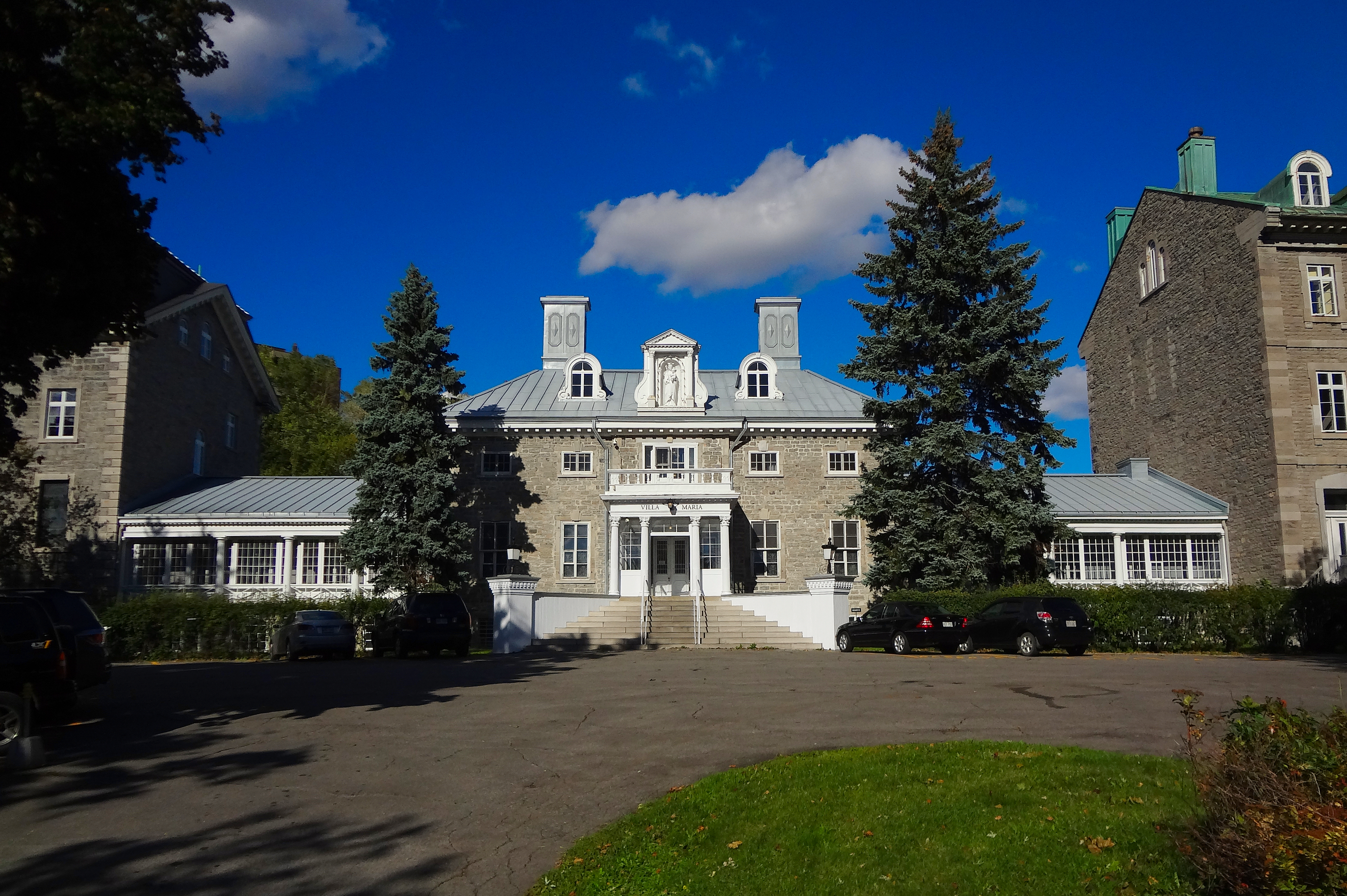 Monklands / Villa Maria Convent - National Historic Site of Canada In 1795, James Monk, Chief Justice of Lower Canada, purchased an estate in Montreal that had previously belonged to the Décarie family. The first Monk residence, built in 1803, was the central section of the present-day Villa Maria. Sir James Monk willed the property known as ‘Monklands’ to his niece, Elizabeth Ann Monk. In 1844, the family leased Monklands to the Crown as a residence for the Governors General of Canada. Modifications were made to create a more imposing residence. Three Governors General, Sir Charles Metcalfe, Lord Cathcart and Lord Elgin, resided at Monklands.